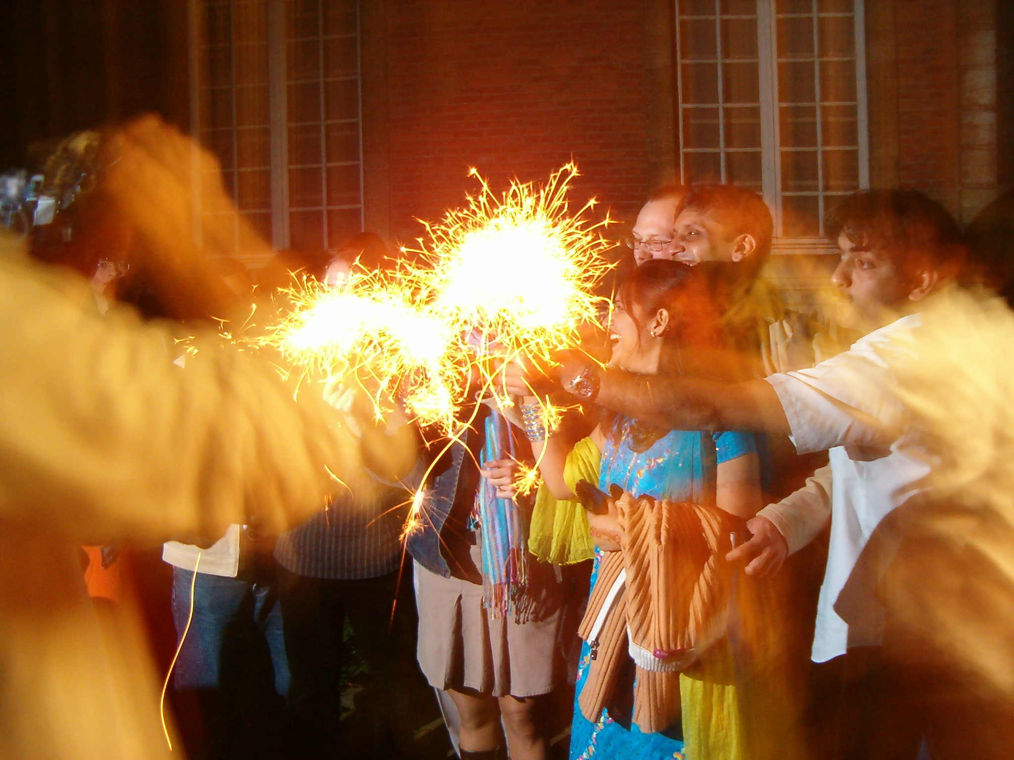 Playing with sparklers on Diwali.